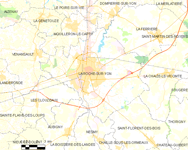 Map of French municipality La Roche-sur-Yon